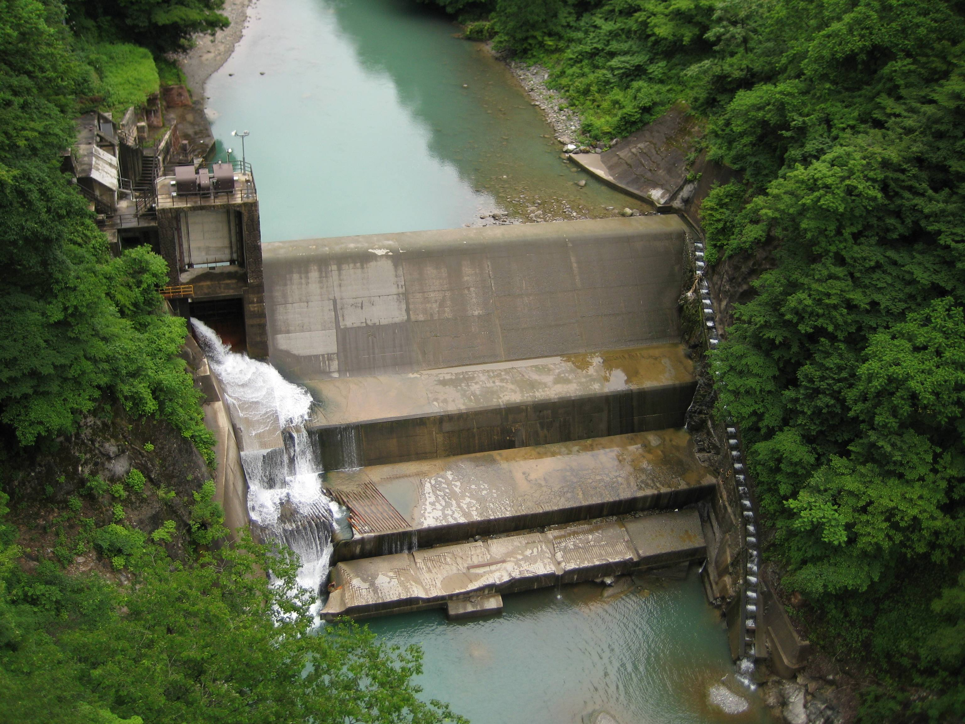 Yoshinodani Dam.